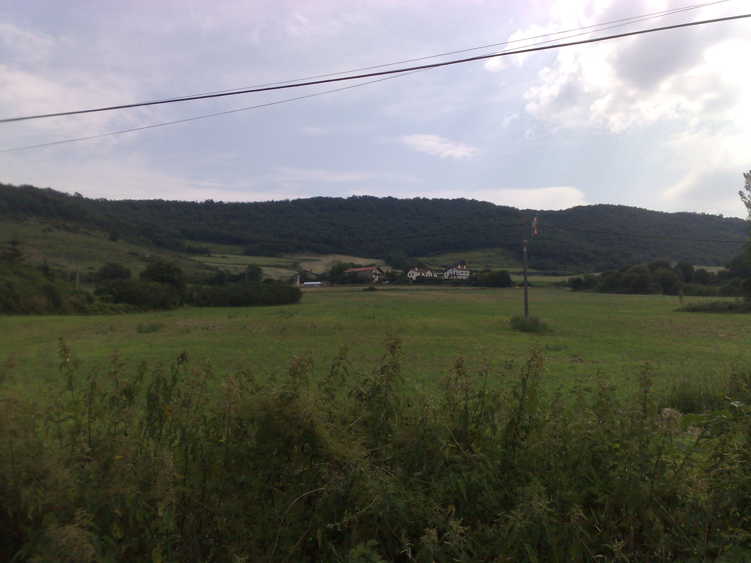 Gendulain, Odieta, Navarre, Basque Country seen from NA-4240 road near Erripa. A Basque flag can be seen on the field near the road.